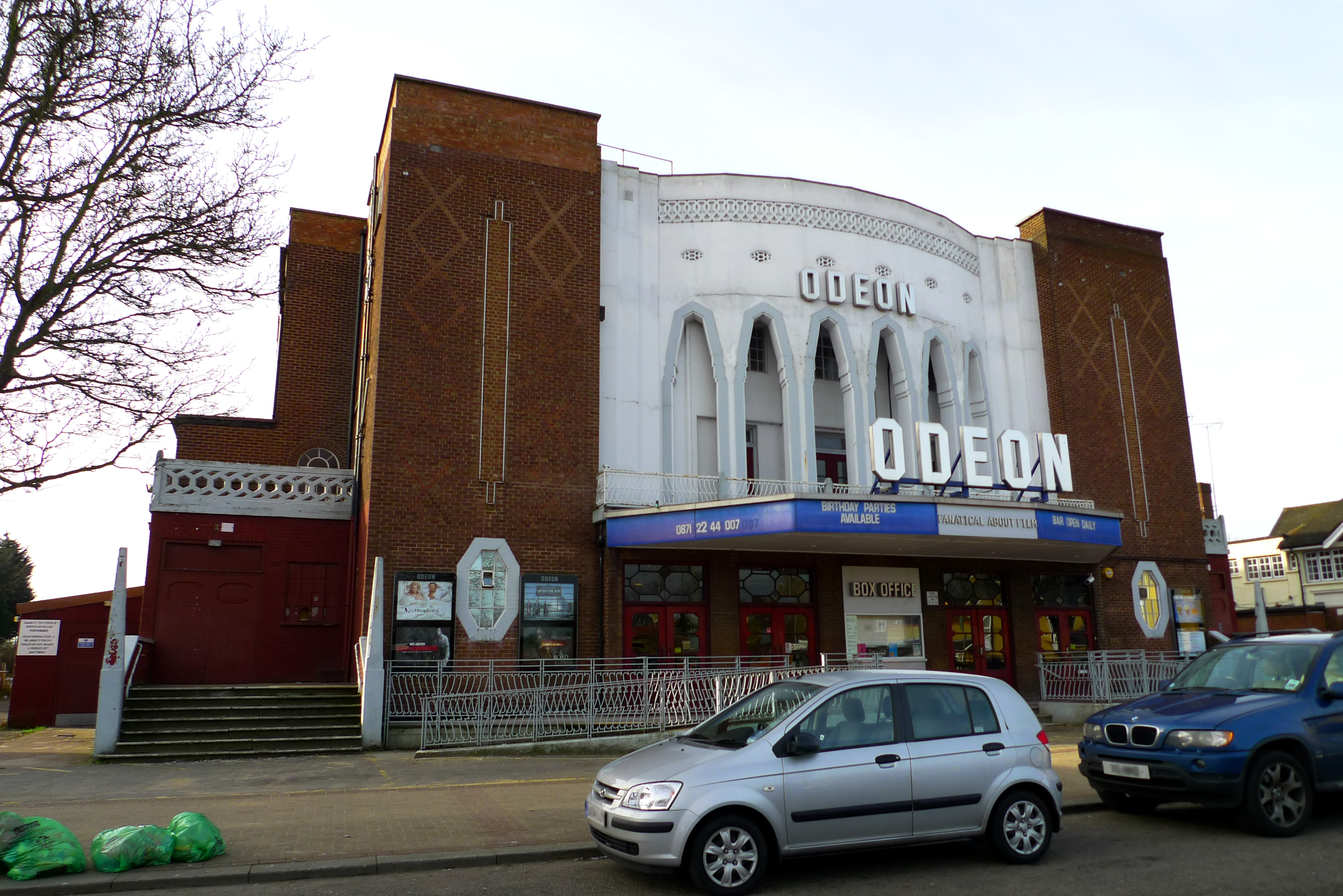 Odeon Cinema, Great North Road, Barnet, London. Note the Art Deco first-floor loggia with six-bay arcade.